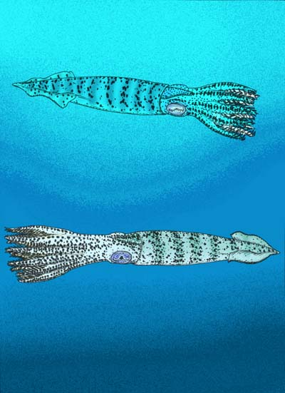 Reconstructions of the coleid cephalopods Uncinoteuthis cuvieri (top) and Ostenoteuthis siroi (bottom), from Jurassic Osteno, Italy